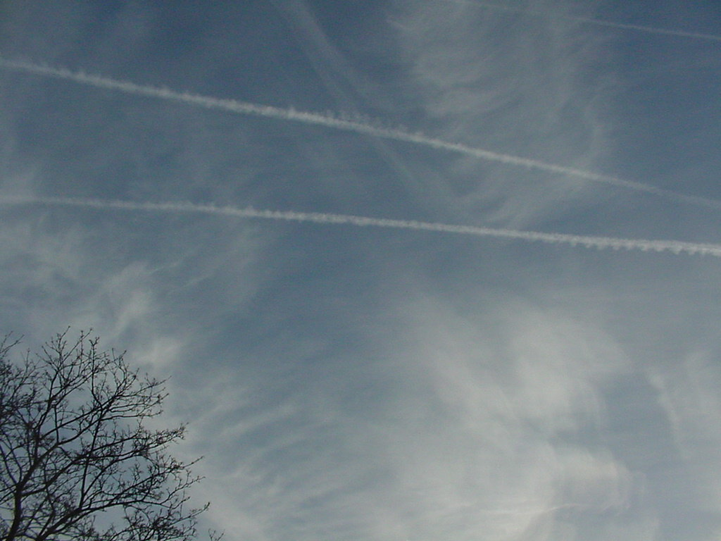 Airliner contrails, some new, some old and much spread out by wind shear. south Manchester, UK